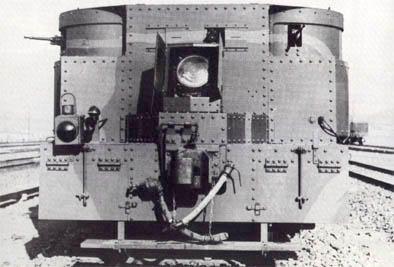 Type 94 Armored Train of the Imperial Japanese Army, showing reconnaissance waggon